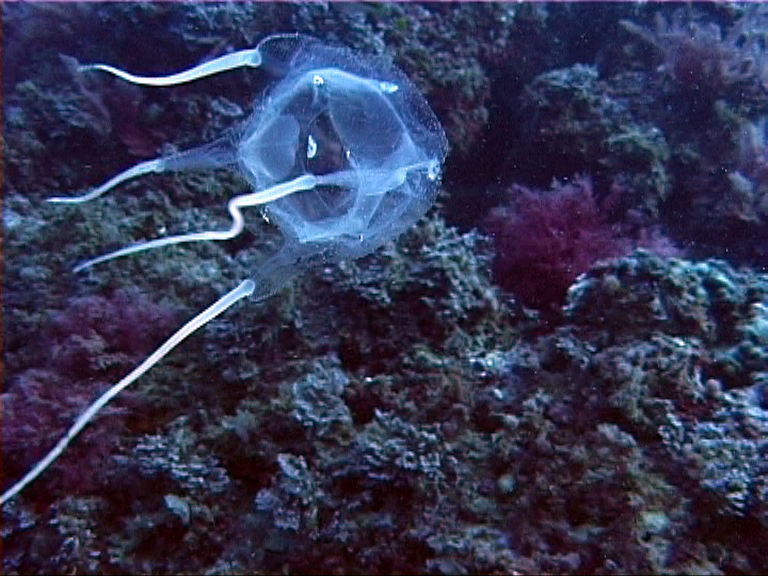 Carybdea marsupialis in Civitavecchia (Italy)